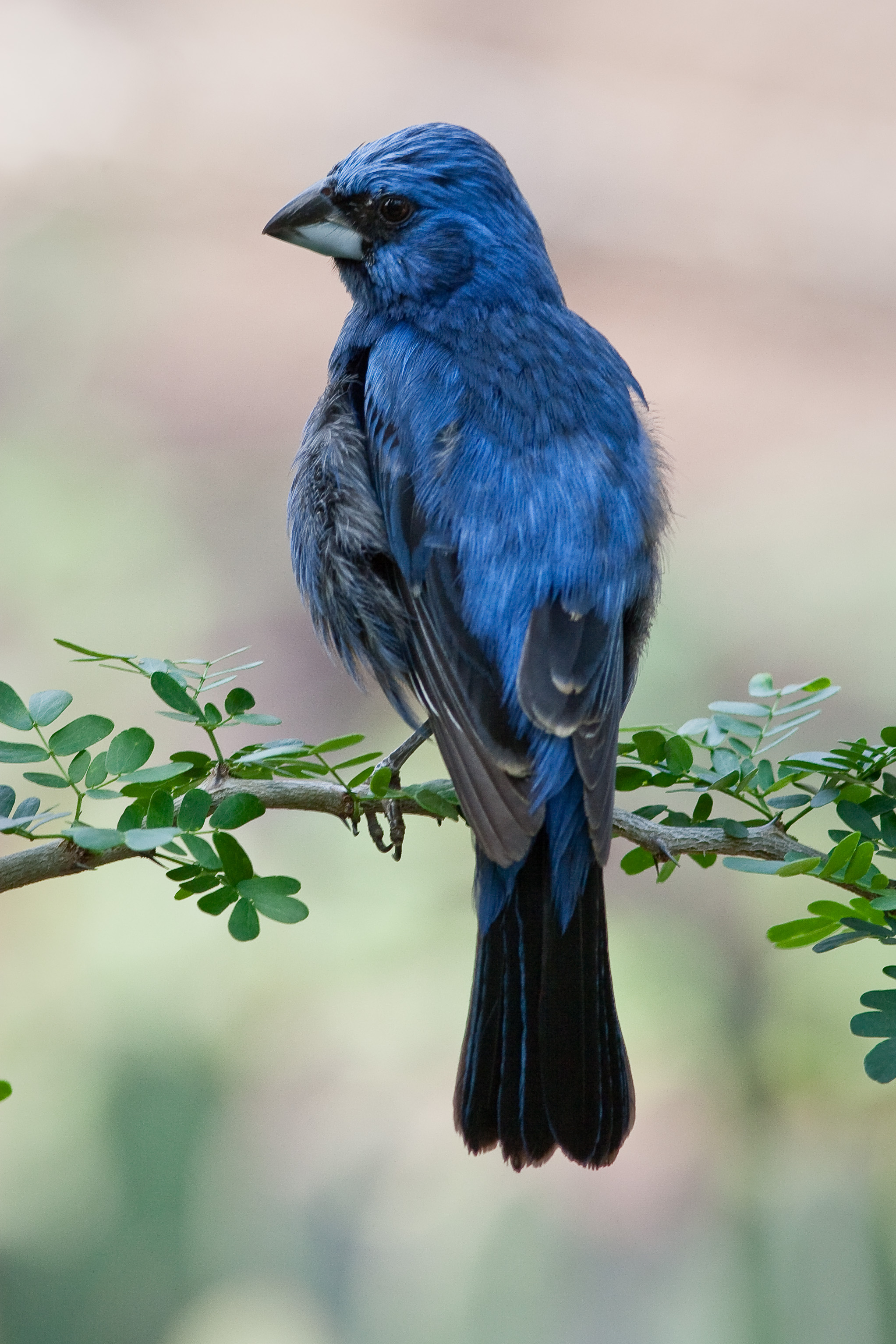 A male Ultramarine Grosbeak at Burgers Zoo, Netherlands.